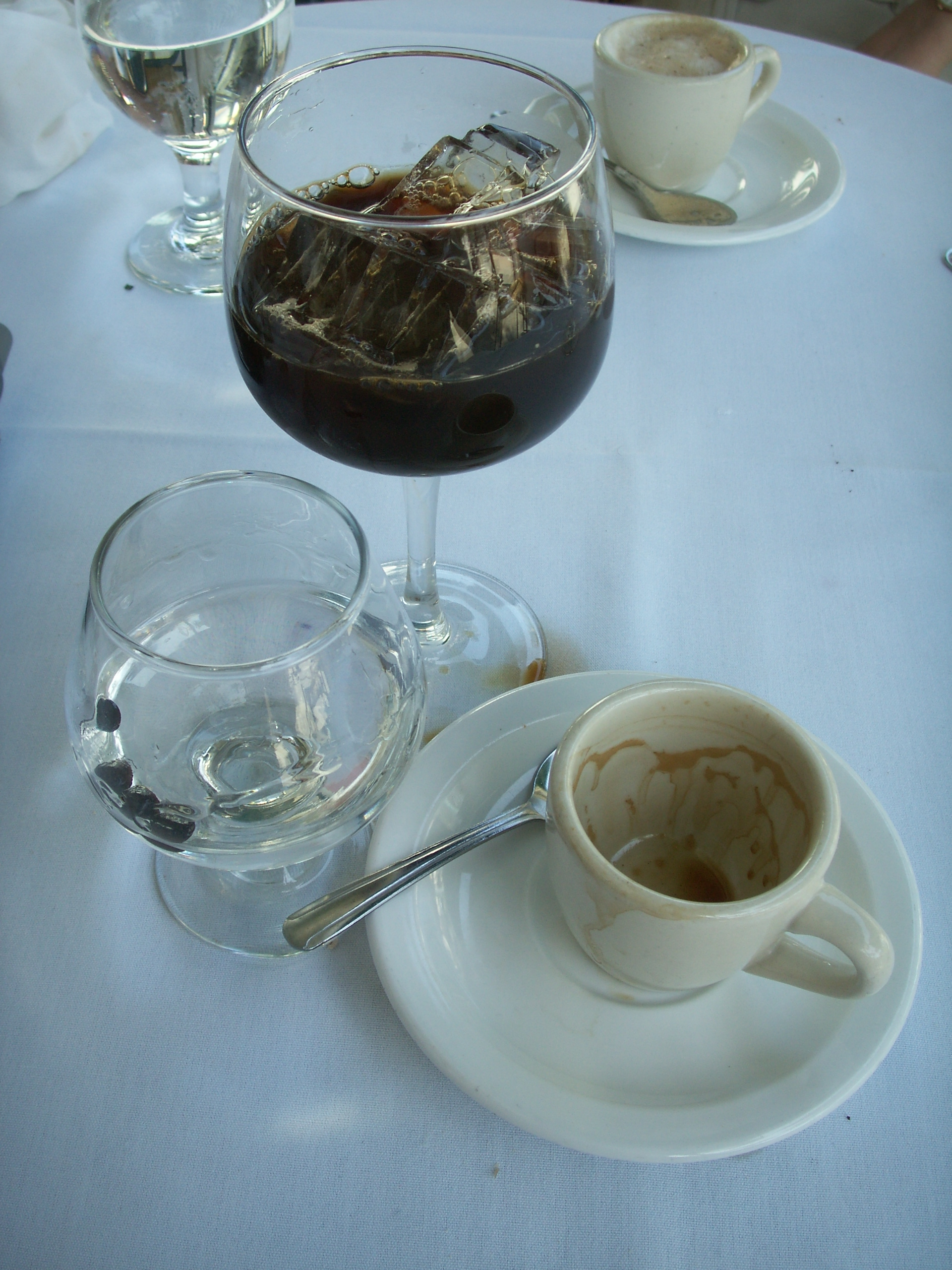 Sambuca (an anis-based liquor) served with coffee and ice